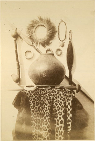 Shilluk material culture